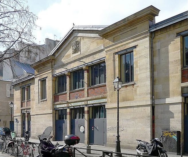 Hospitalières-Saint-Gervais street - Paris